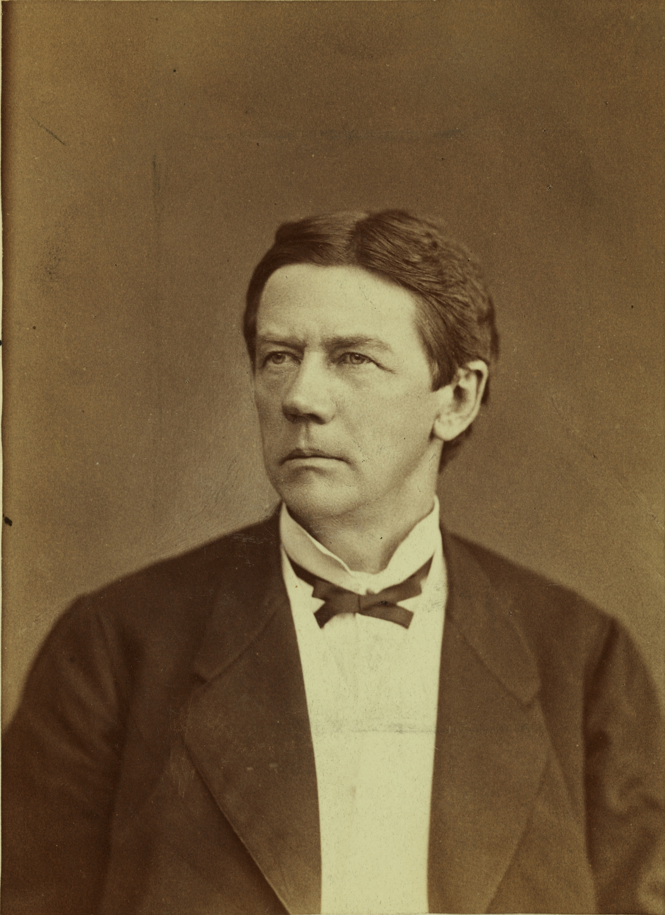 Depicted person: Theodor Kjerulf. Theodor Kjerulf was married to Agnes Anker, sister of Betsy Anker Gude.